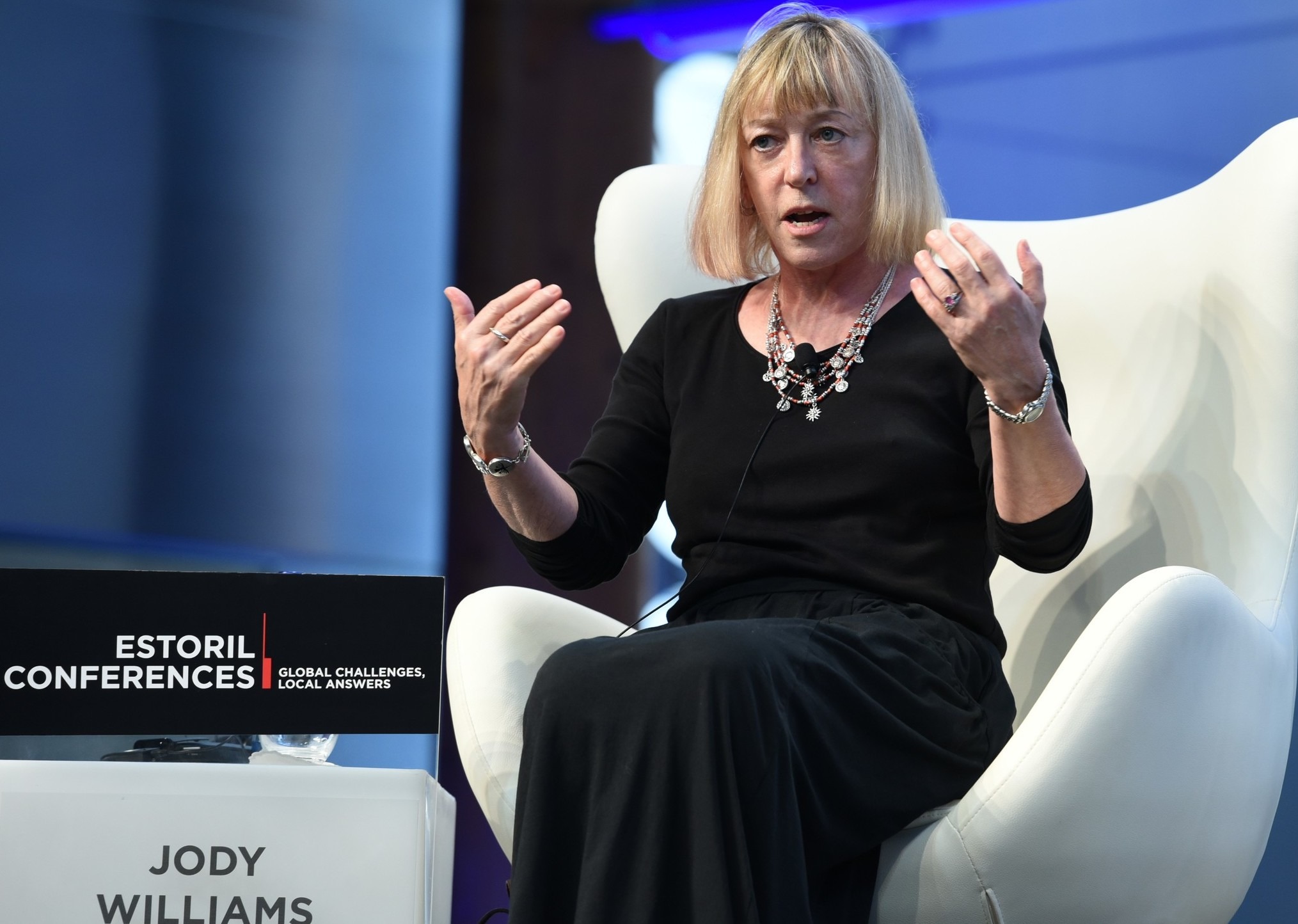 Horasis Global Meeting 2017, Cascais, Portugal, 27-30 May